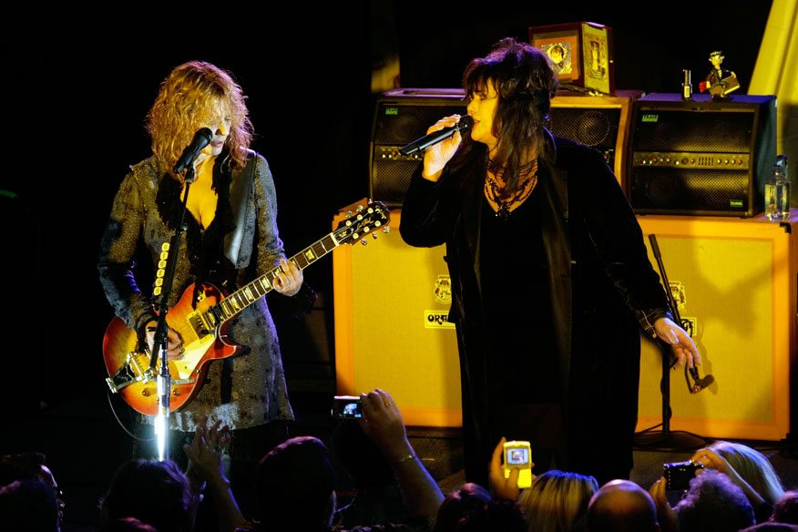 Nancy and Ann Wilson playing at a charity concert for the Canary Foundation 07-28-07. Photo by Michael Sierra (original en wiki user is the owner of referenced website)